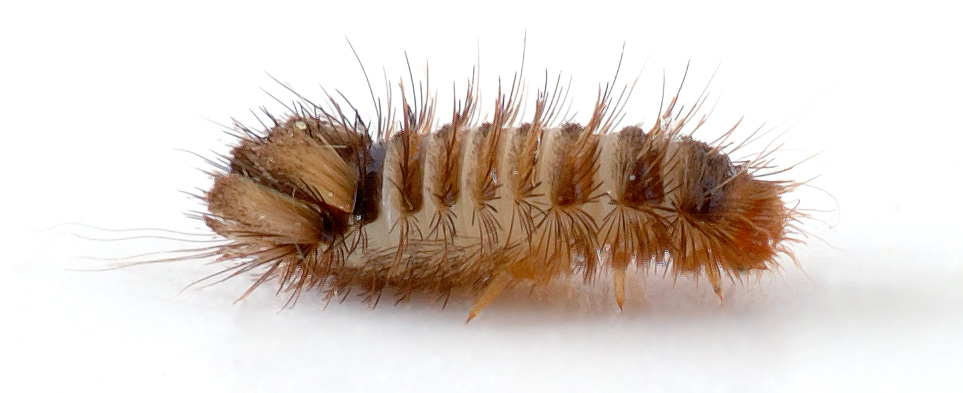 This image shows an about 0.18 inch (4.6 mm) large Varied carpet beetle larva (Anthrenus verbasci).